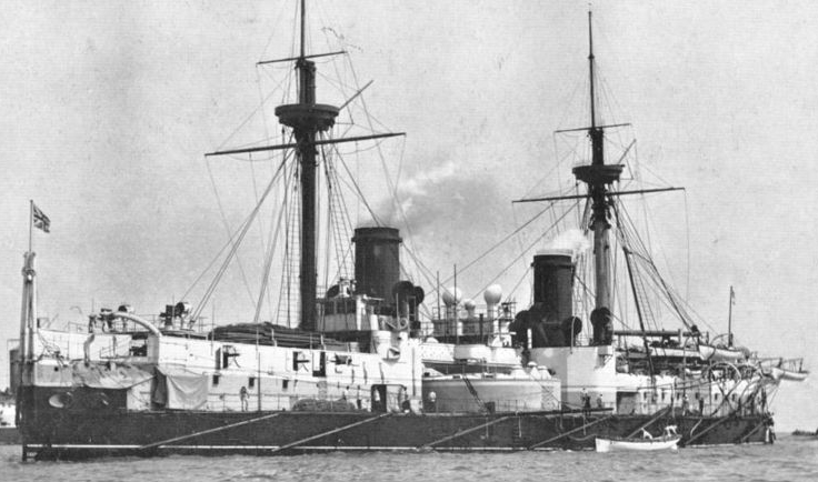 Battleship HMS Inflexible.